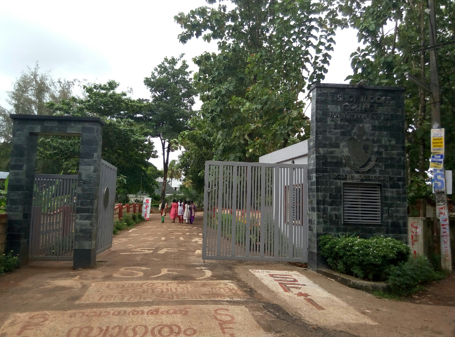 Bishop moor college mavelikara